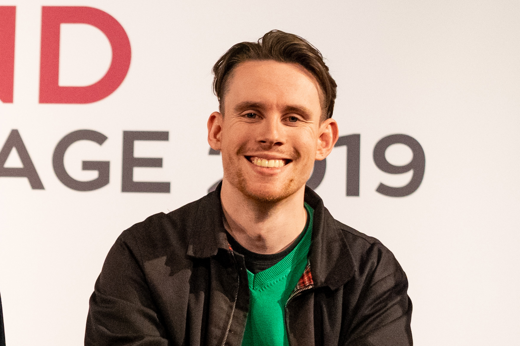 Maximilian Schulz bei den Jugendpolitiktagen 2019